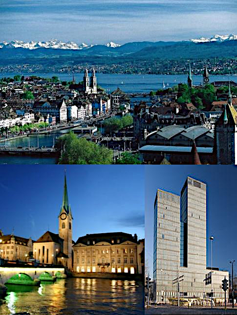 A montage of Zurich, Switzerland.